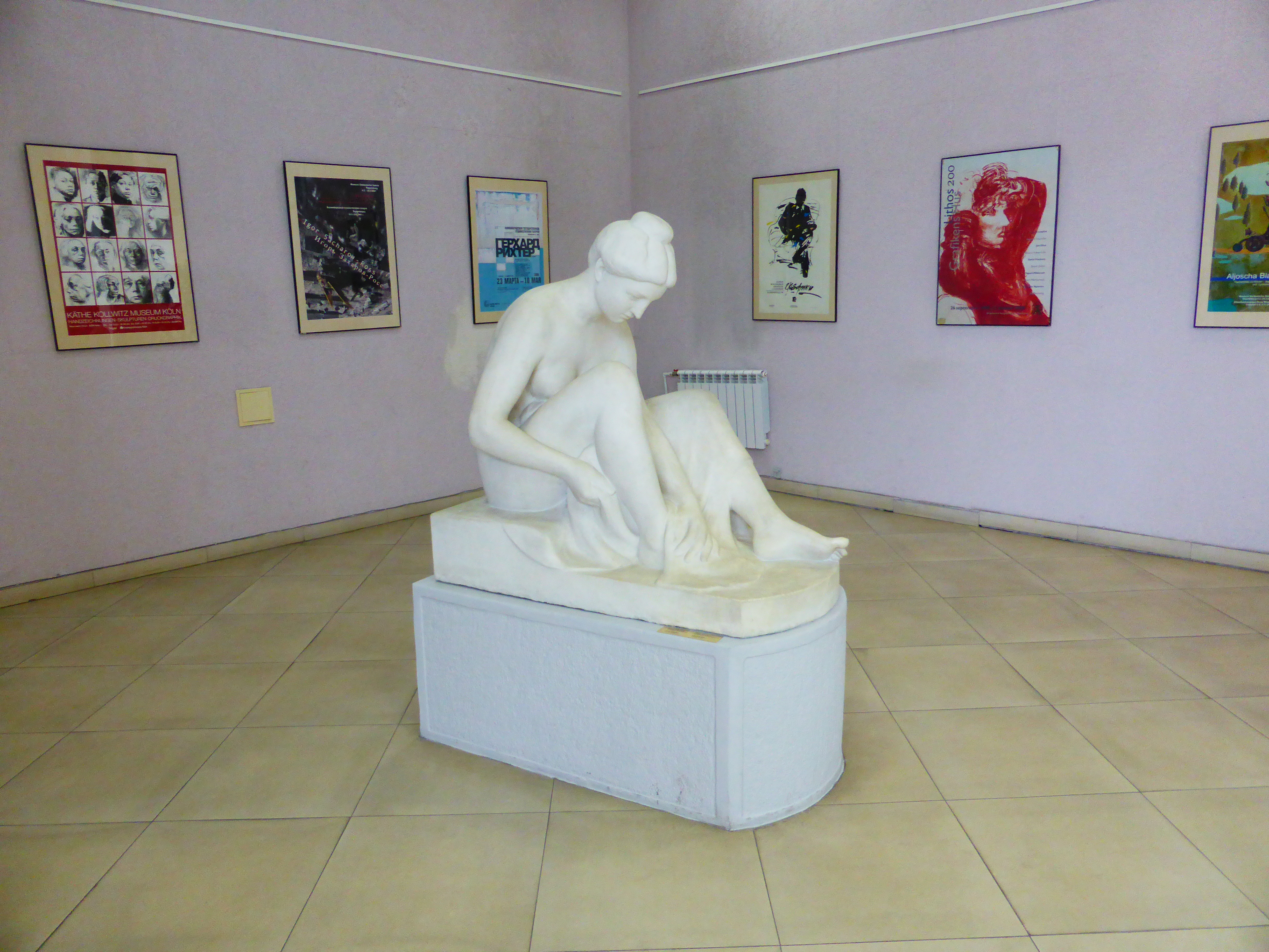 Sculpture After bathing